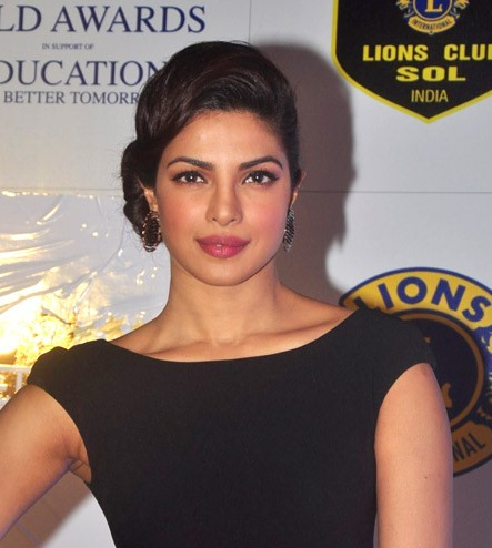 Priyanka Chopra at the 2015 Lion Gold Awards